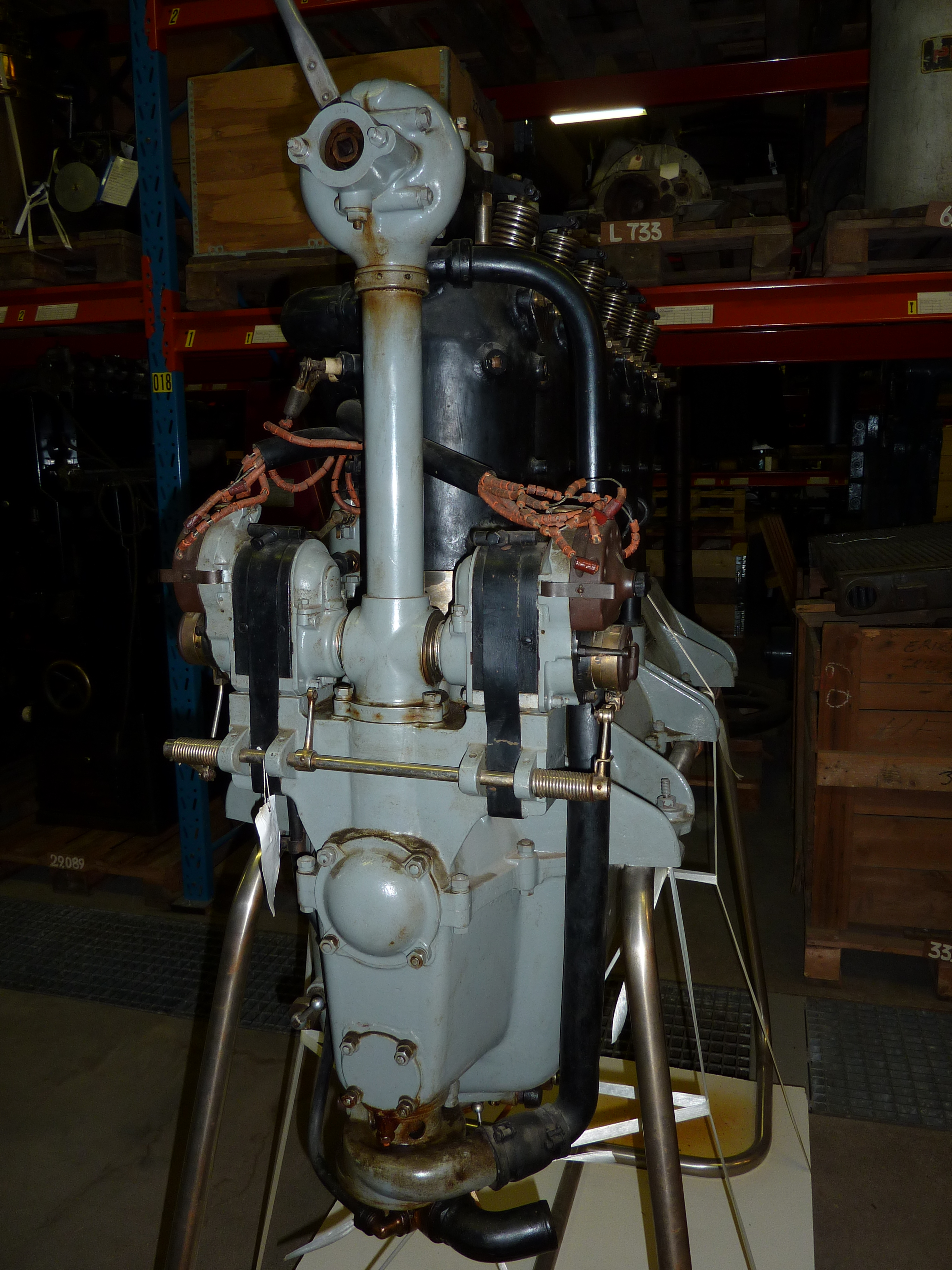 Original 4-cylinder engine for Junkers F 13 aircraft. Motor number 4001. The JL-2 engine was underpowered and was later replaced by JL-5. This engine was bought by Swedish AB Aerotransport in 1926 as a spare and has probably never seen service. It was donated to Tekniska museet in Stockholm in 1937 and has accession number TM13236.